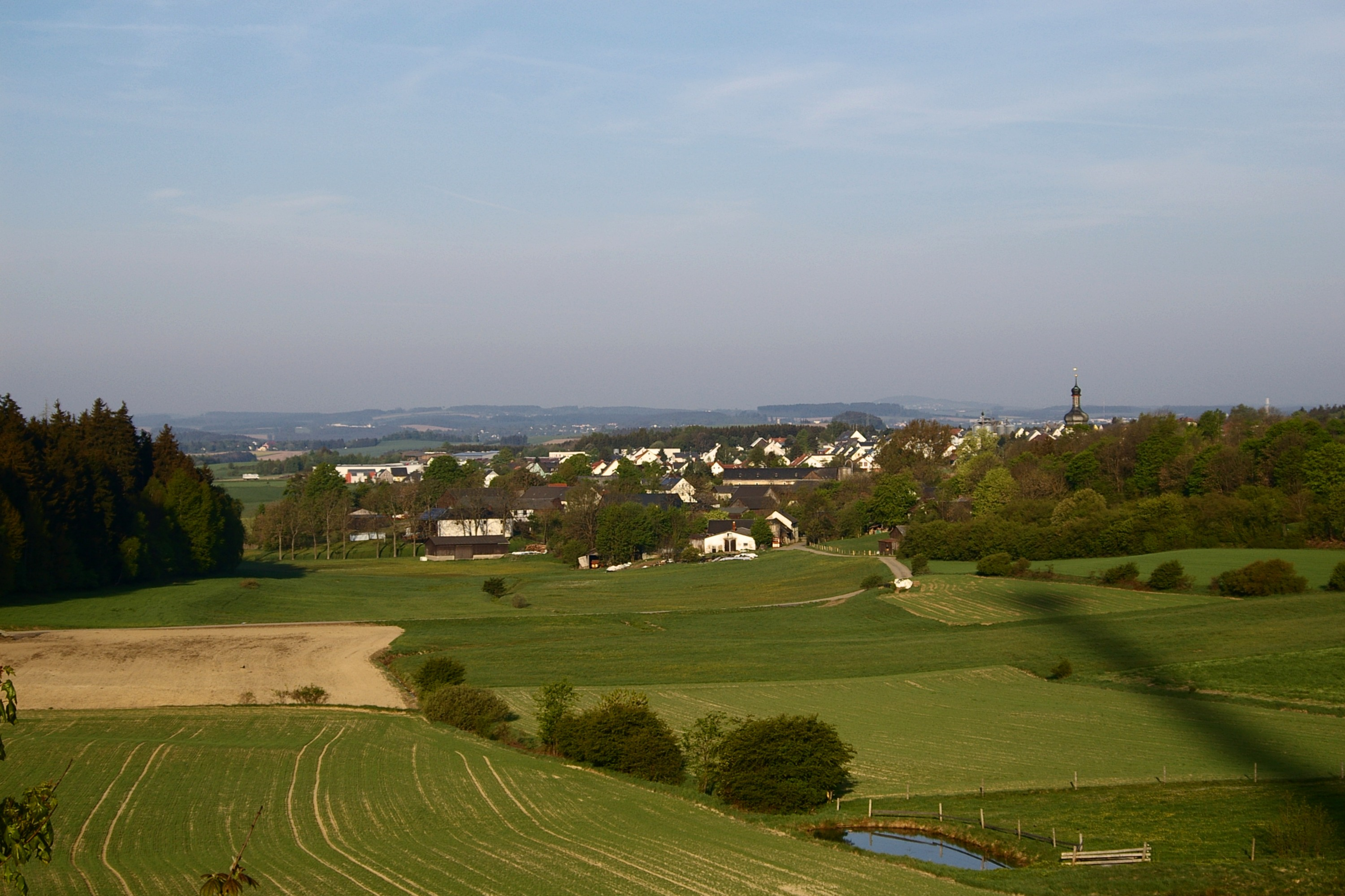 Kirchgattendorf near Hof/Saale